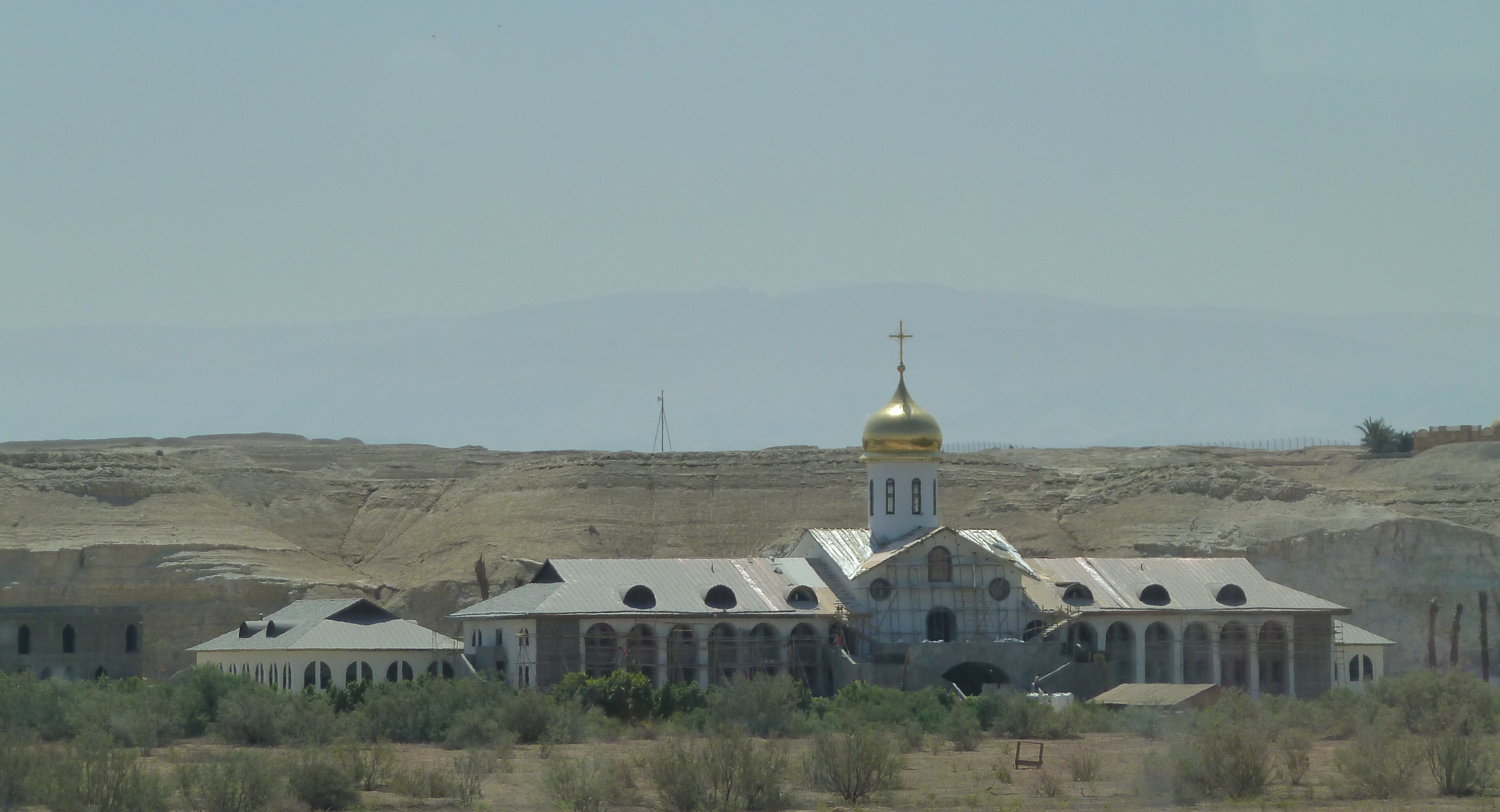 Qasr al-Yahud - Place of Jesus Baptism, on the bank of the Jordan River, North of the Dead Sea, Palestine